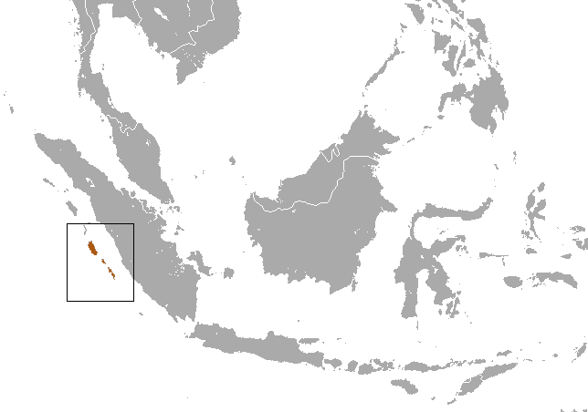 Kloss's Gibbon (Hylobates klossii) range